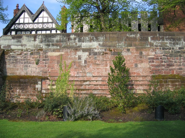 Civil war siege damage to the city walls The lighter coloured section of the city walls indicates where the walls were breached during the English civil war. Park Street runs alongside the other side of the wall in front of the black and white Victorian building on the left, and the 1960s concrete car park on the right.